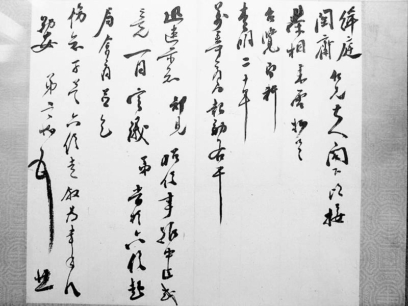 Handwriting by Sheng Xuanhuai(1844-1916, an entrepreneur in the late Qing Dynasty)